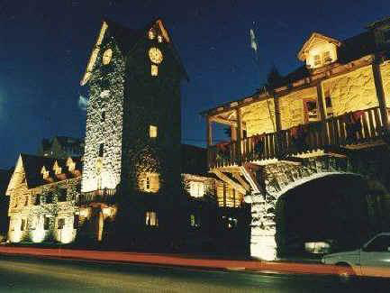 Bariloche's Civic Center, in Rio Negro, Argentina. The night photograph shows the Post Office building and the Corporated Town building, whith its classic watch.